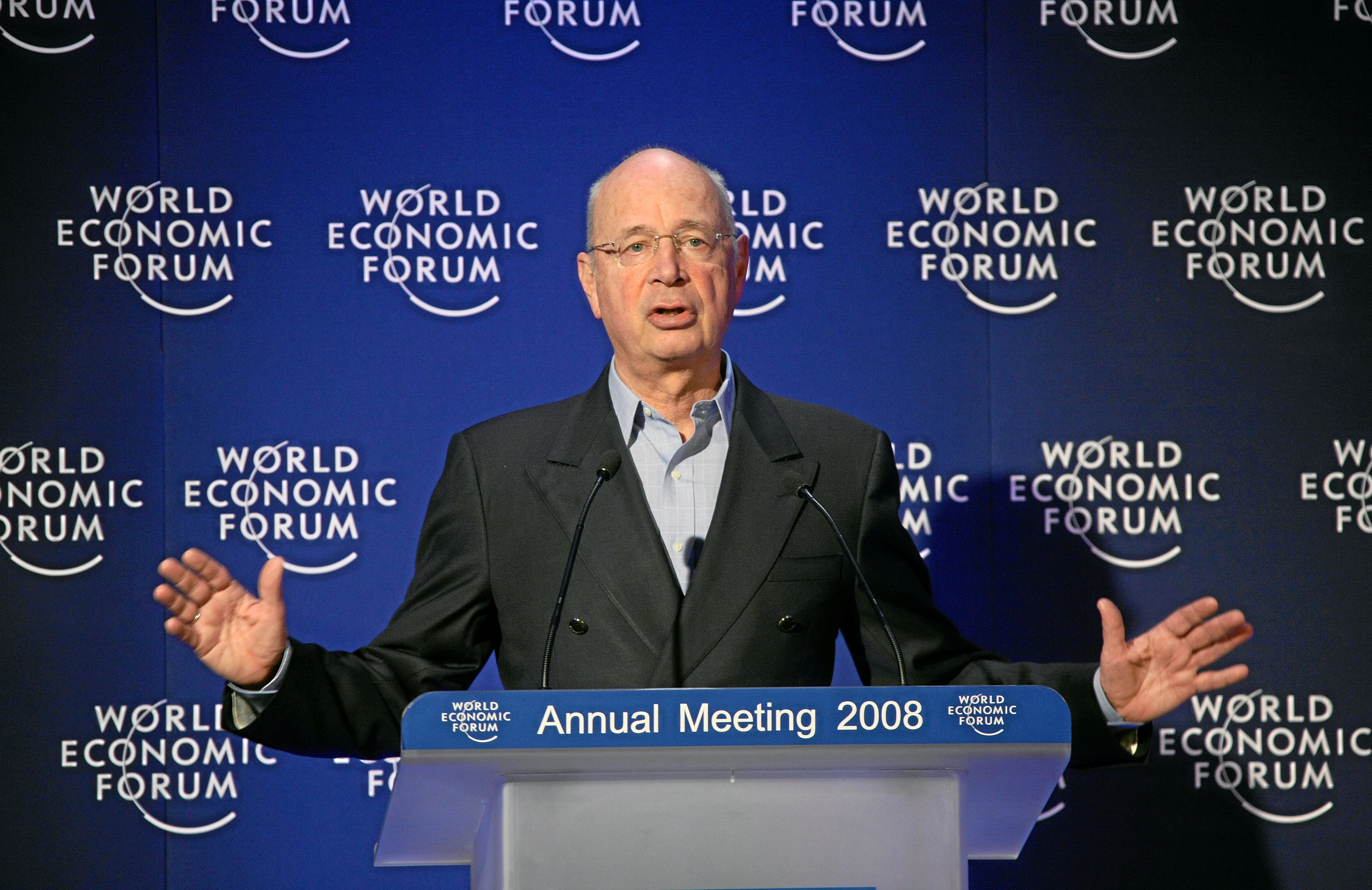 Davos, Switzerland: Klaus Schwab, Founder and Executive Chairman, World Economic Forum, addresses the audience during the session 'Message from Davos: Believing in the Future' at the Annual Meeting 2008 of the World Economic Forum in Davos, Switzerland, January 27, 2008.